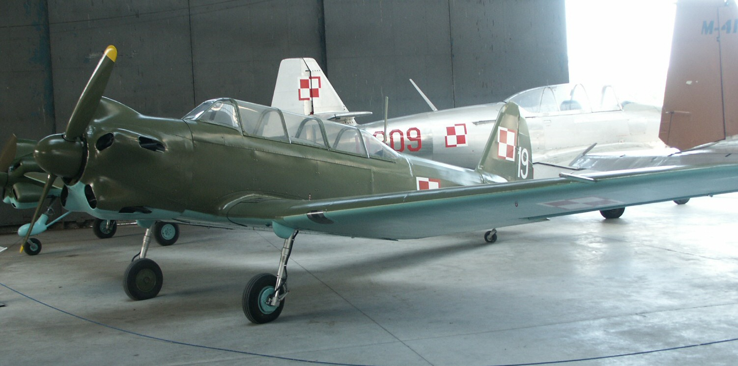 Yakovlev Yak-18 in the Polish markings at the Polish Aviation Museum in Kraków